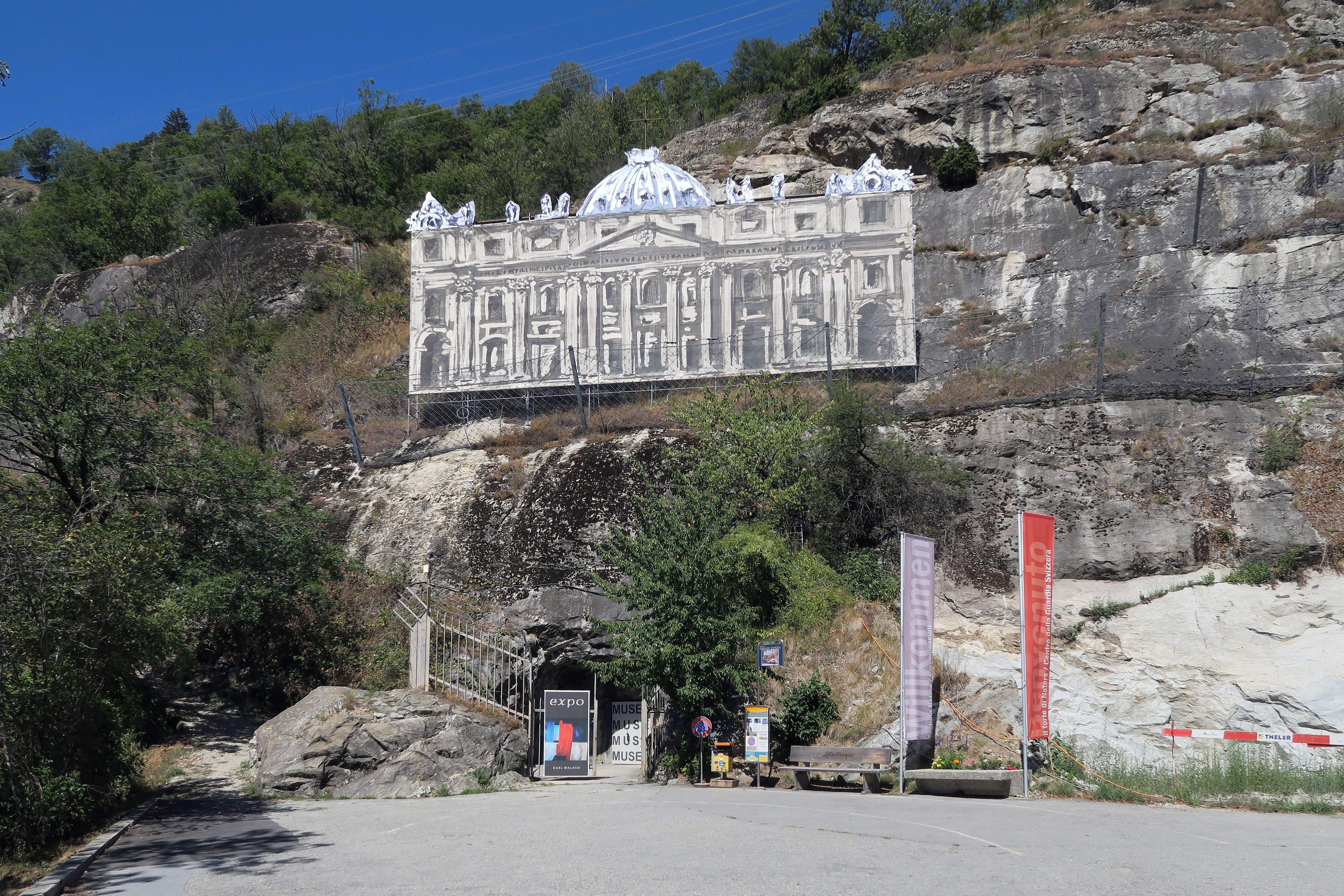 The main entrance of the plant, declassified in 2002, and open for the public since 2008. This entrance can also be reached by car, but the public car park is 200 meters below. Switzerland, Aug 8, 2016. (12/16)